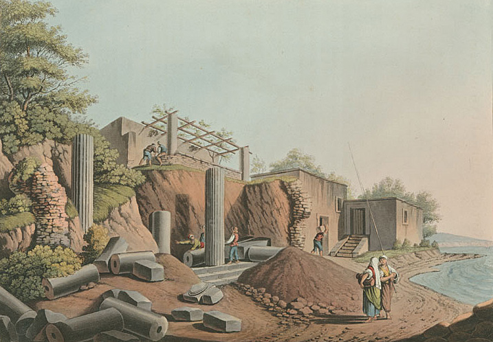 Ancient Temple in the Island of Salina (1810). Views in the Ottoman Dominions, in Europe, in Asia, and some of the Mediterranean islands, from the original drawings taken for Sir Robert Ainslie, by Luigi Mayer.